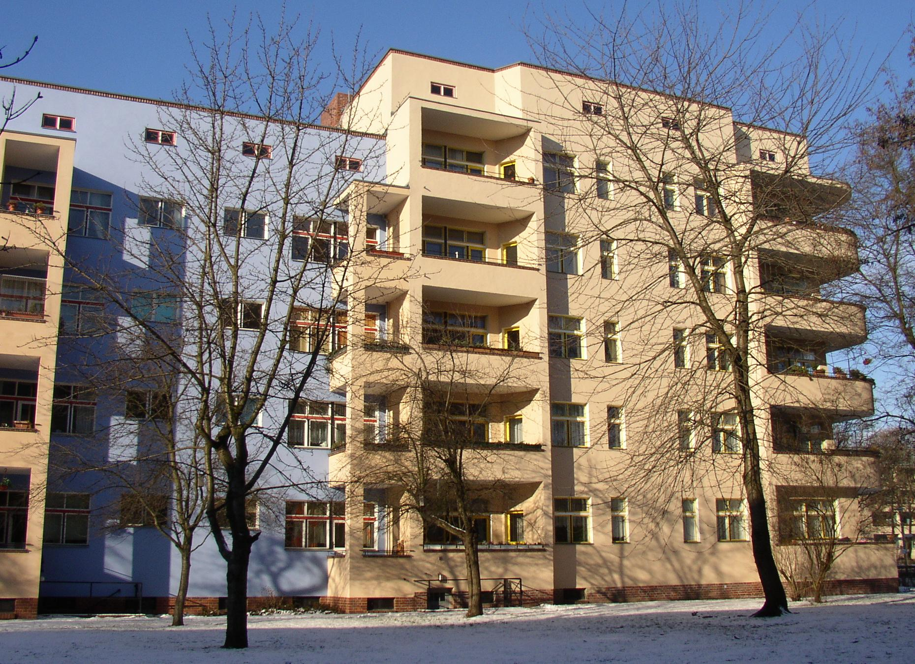 Wohnstadt Carl Legien in Berlin-Prenzlauer Berg, Germany (planner Bruno Taut)